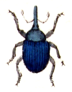 Orobitis cyanea, from Calwer's Käferbuch, Table 34, Picture 4. Taxonomy was updated to 2008, using mostly the sites Fauna Europaea and BioLib. Please contact Sarefo if the determination is wrong!